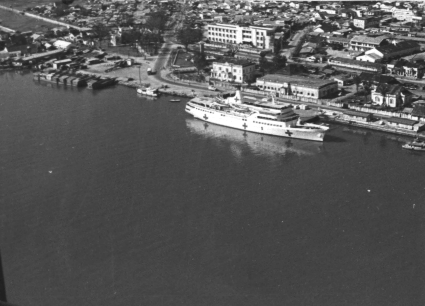 The German hospital ship Helgoland moored at Da Nang, Vietnam, on 23 January 1970. The liner Helgoland was chartered by the West German Red Cross in 1965 and converted into a hospital ship. As the German contribution to the Vietnam War, she stayed at Saigon from 3 October 1966 to 12 September 1967. She was them moved to Da Nang, where she was moored from 11 October 1967 to 31 December 1971, treating mainly civilian casualties of the war.